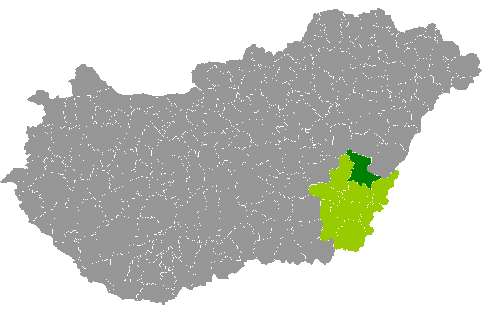 Location of Szeghalom District, Békés, Hungary